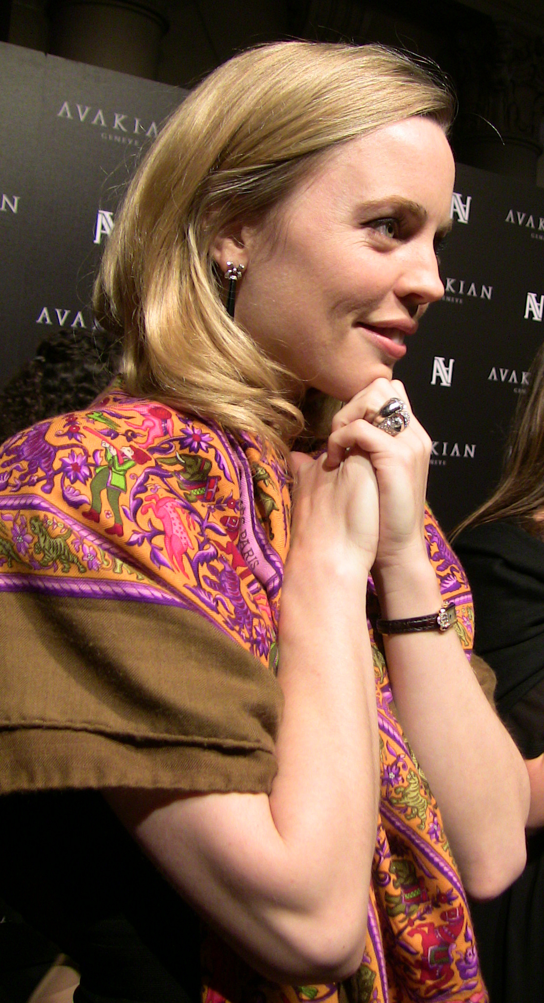 Melissa George at Avakian Beverly Hills Boutique, Beverly Hills, Calif. - Dec. 4, 2008